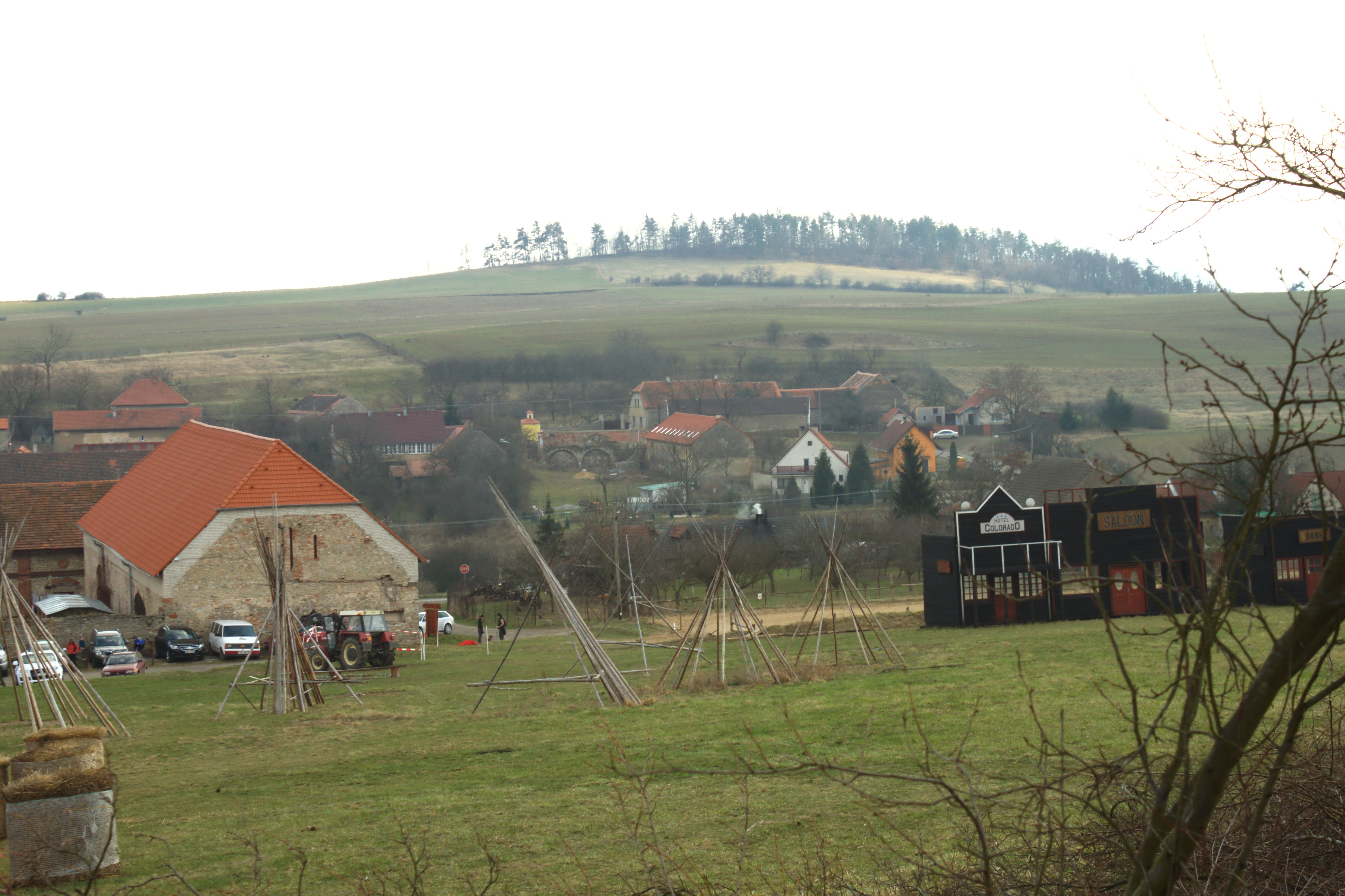 The village of Málkov in Central Bohemian Region, CZ